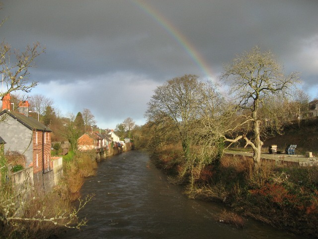 A Rainbow And A River The Afon / River Banwy at Llanfair Caereinion.